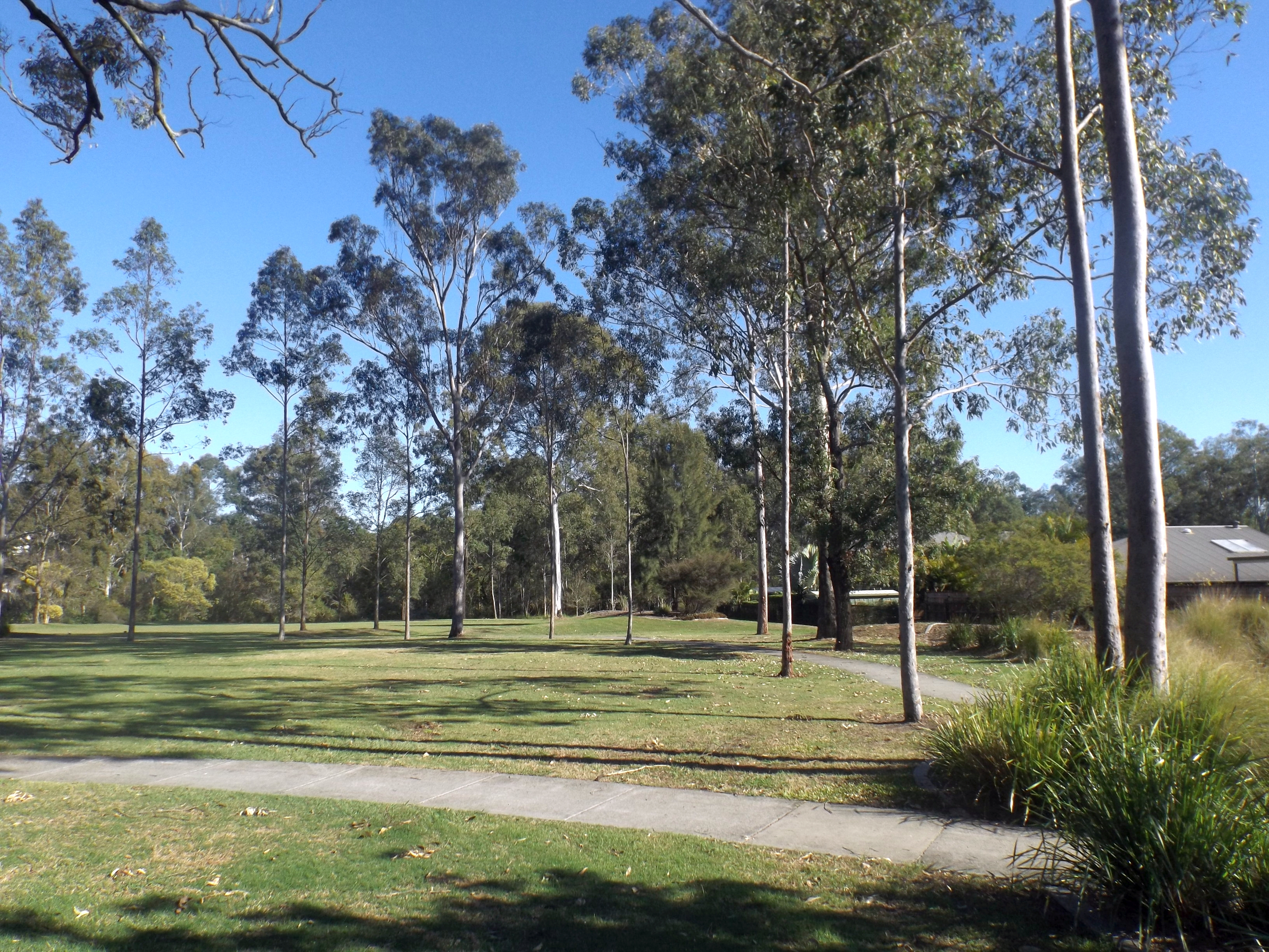 Photo of park on Christopher Street at Augustine Heights in City of Ipswich, Queensland, Australia.